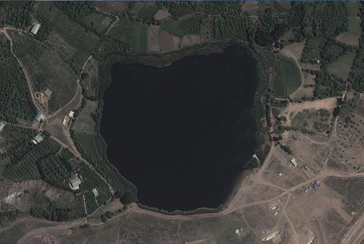 Ovan Lake, Alamut, Iran (by Landsat Satellite)